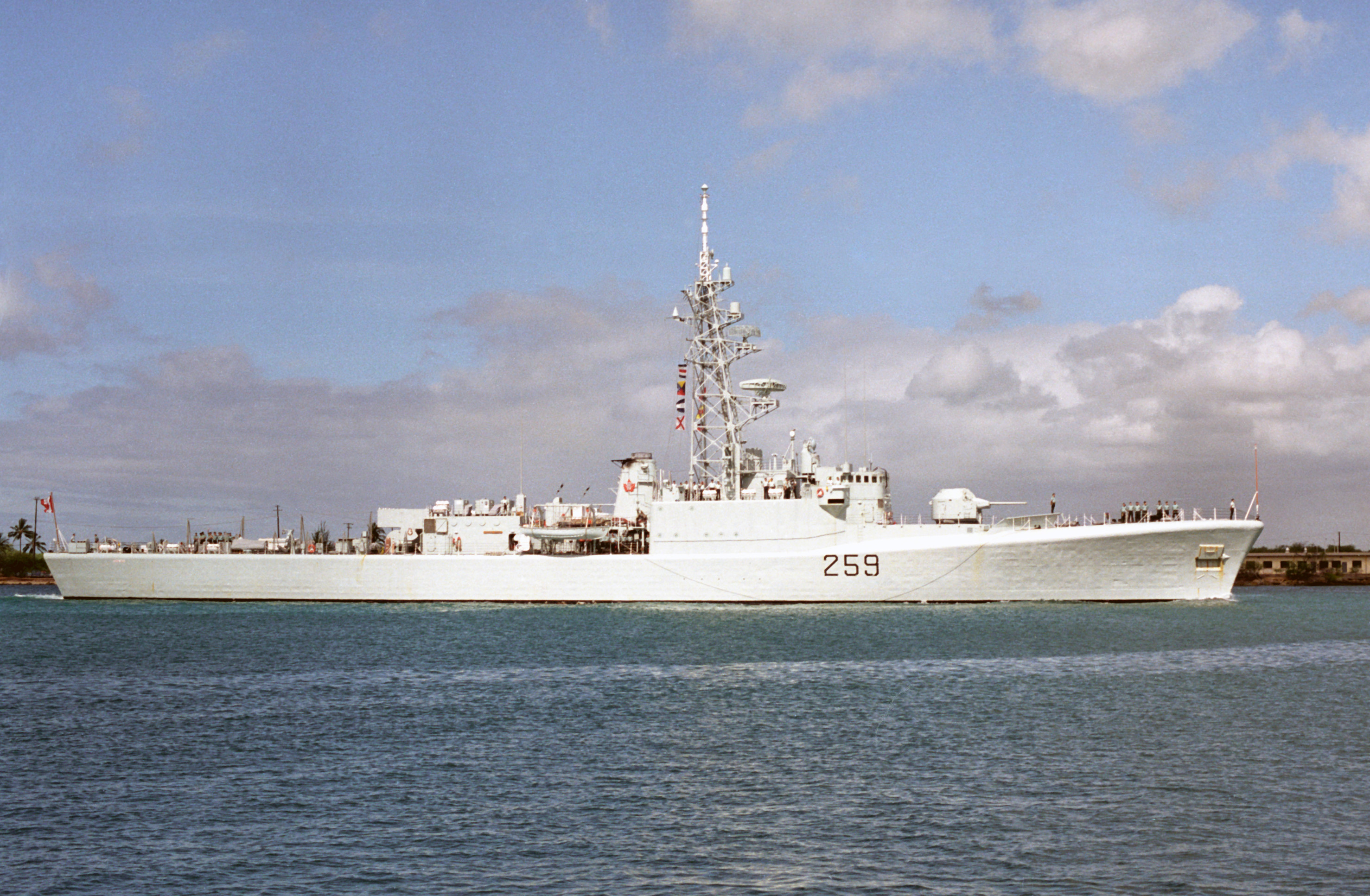 The Canadian escort destroyer HMCS Terra Nova (DDE 259) underway at Pearl Harbor, Hawaii (USA), during exercise "RIMPAC '86".